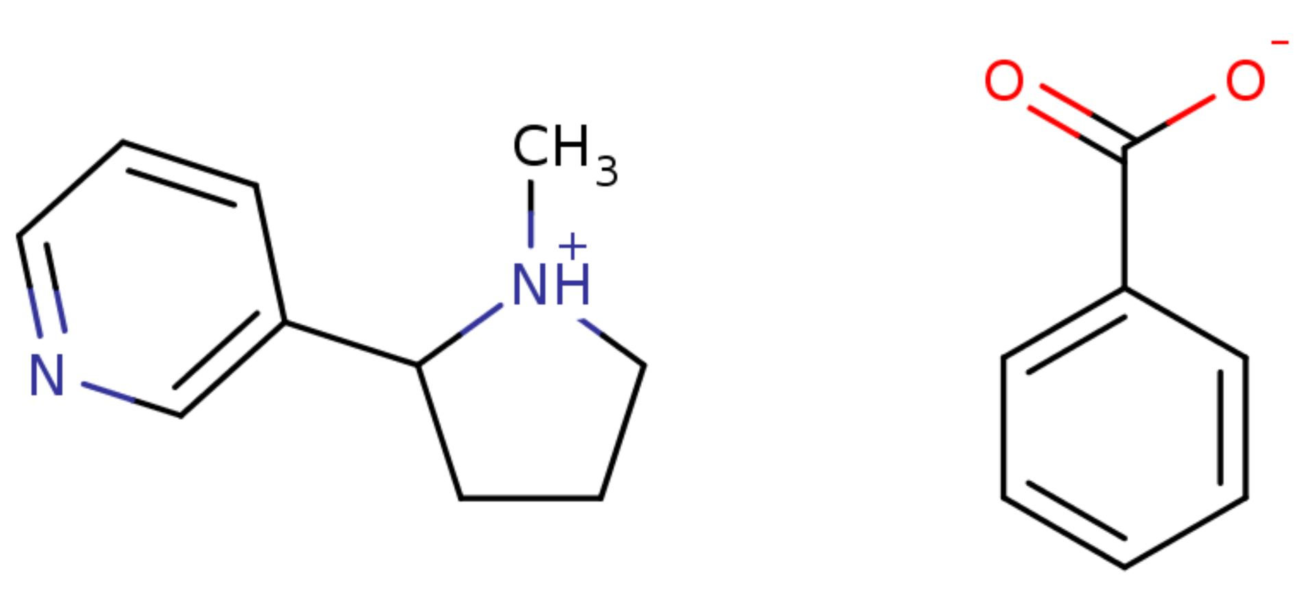 Protonated nicotine and deprotonated benzoic acid form a salt. This figure was created using Smi2Depict, with the SMILE descriptor "C[NH+]1CCCC1C2=CN=CC=C2.C1=CC=C(C=C1)C(=O)[O-]".